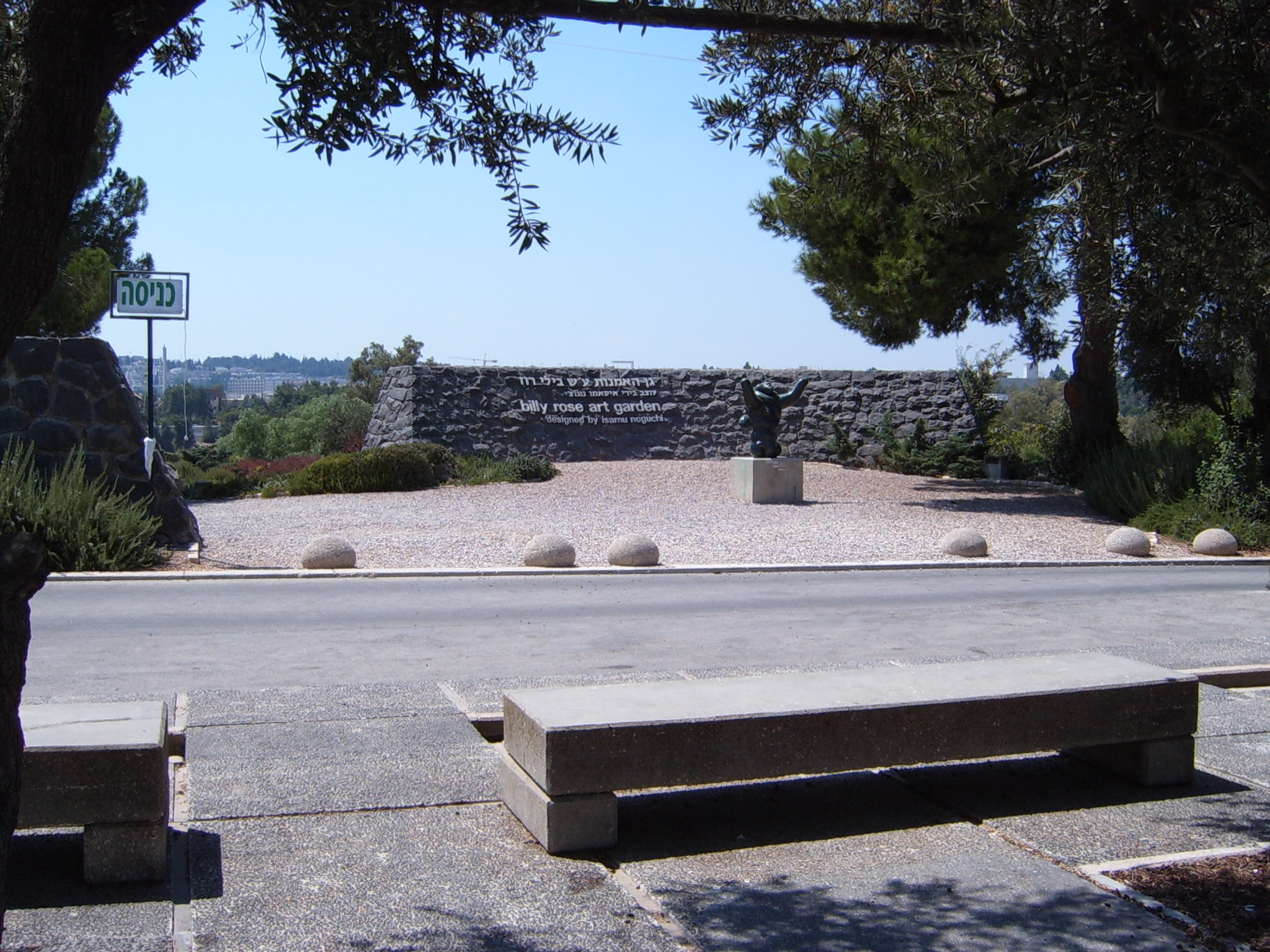 The Billy Rose Art Garden at the Israel Museum in Jerusalem/Israel